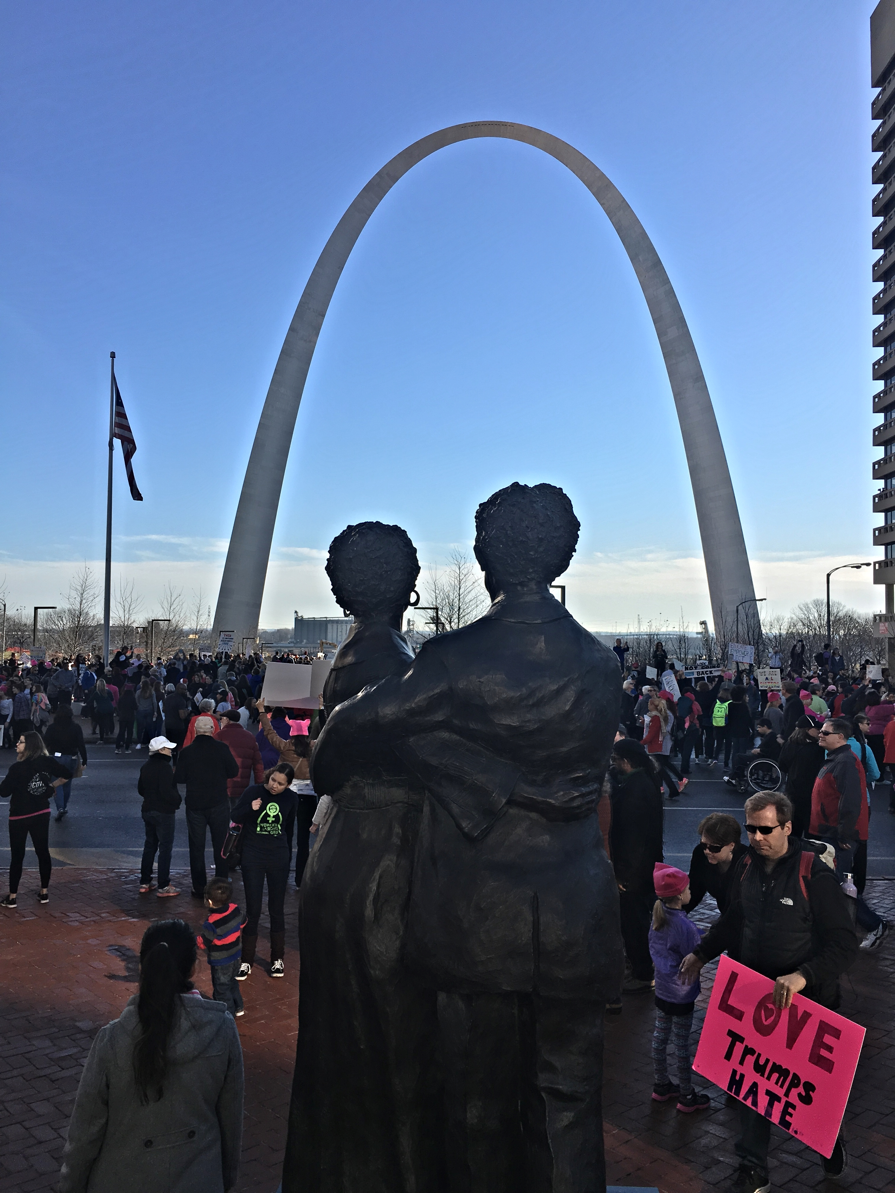 The statues of Dred and Harriet Scott stand next to the Old Courthouse, looking over a crowd of Women's March protesters through the Arch and over the Mississippi River. Dred and Harriet Scott were enslaved African Americans who filed suit for their freedom at this courthouse in 1846. Their case reached the U.S. Supreme Court and was decided in 1857. The court ruled 7-2 that the Scotts were NOT citizens and Congress had no right to regulate slavery. The intense and immediate public opposition to this decision accelerated a chain of events that led to the Civil War and, eventually, resulted in Lincoln's Emancipation Proclamation in 1863 and the post-Civil War Thirteenth, Fourteenth and Fifteenth amendments. The lesson of this story is especially relevant today. Civil rights are often denied (or, having been granted, removed) by government. We can't rely on courts to always preserve those rights (inalienable though they may be). However, public opposition and activism, if sustained over the long term, can eventually overturn those decisions and create a more equitable and prosperous country for all. The Scotts' march for their freedom didn't end here, and neither will ours.